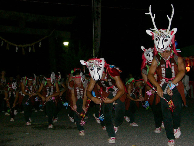 shikanmai